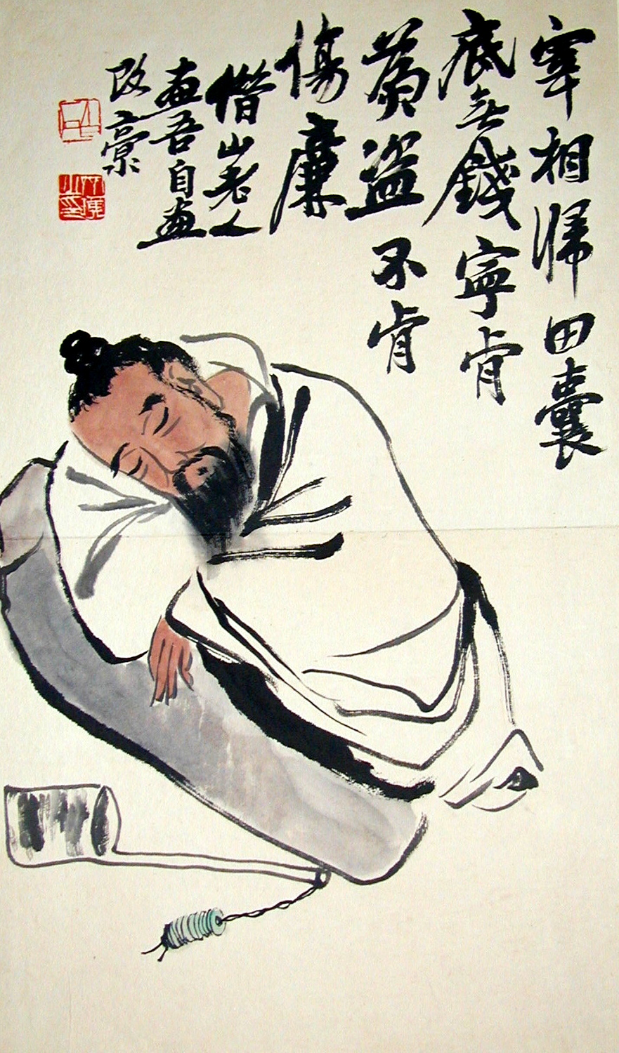 "Stealing the Wine Vat"